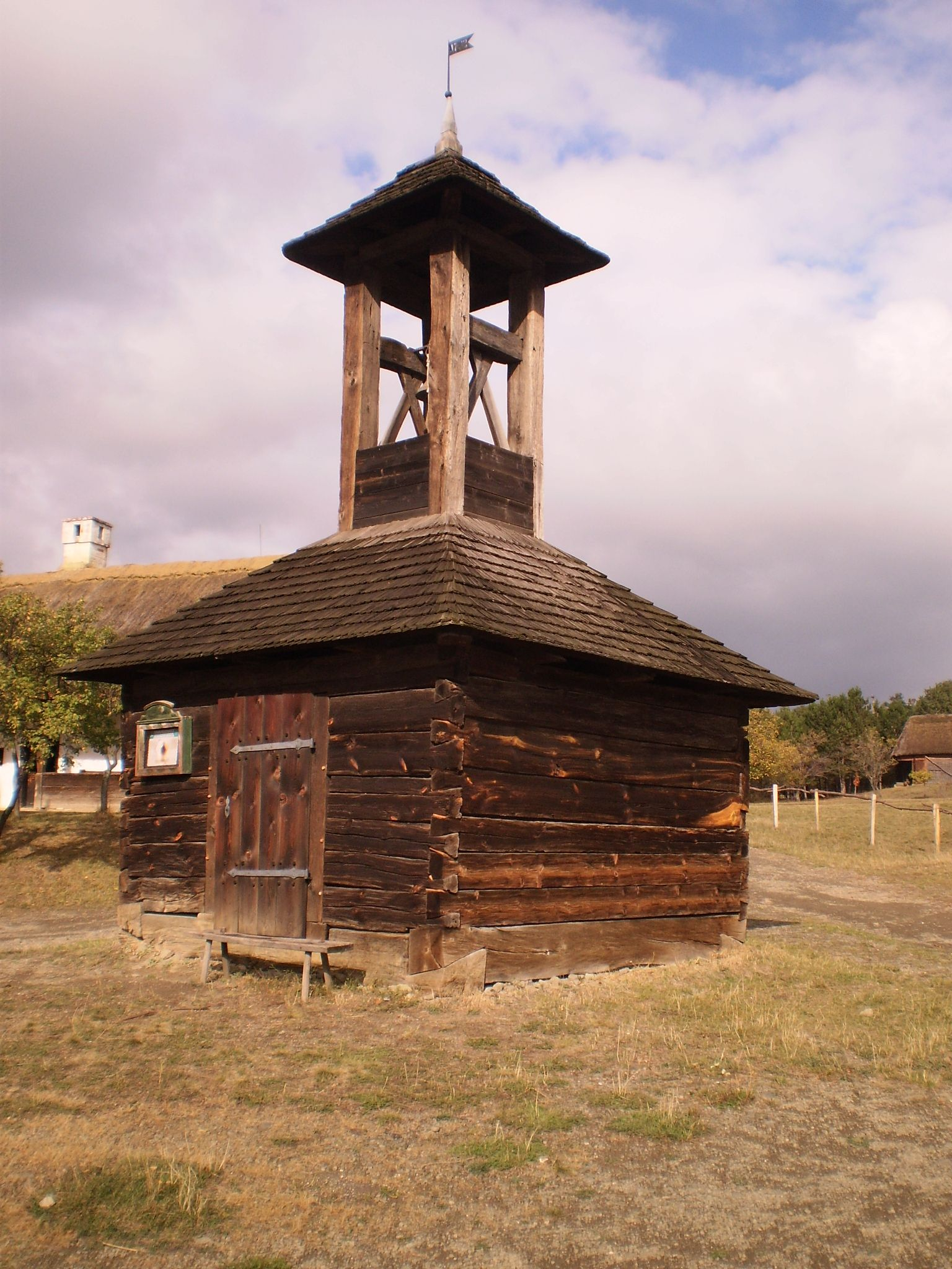 Belfry, Felsöszenterzsébet, Hungary